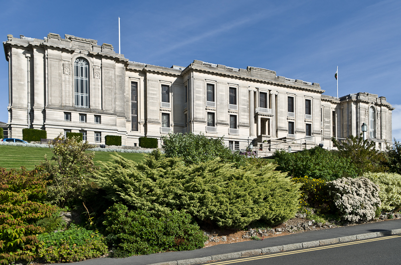 National Library of Wales, Aberystwyth (Sidney Kyffin Greenslade, Reginald Blomfield and Adams, Holden and Pearson, 1911–16). A Grade II*-listed building. West façade photographed from the east-south-east.